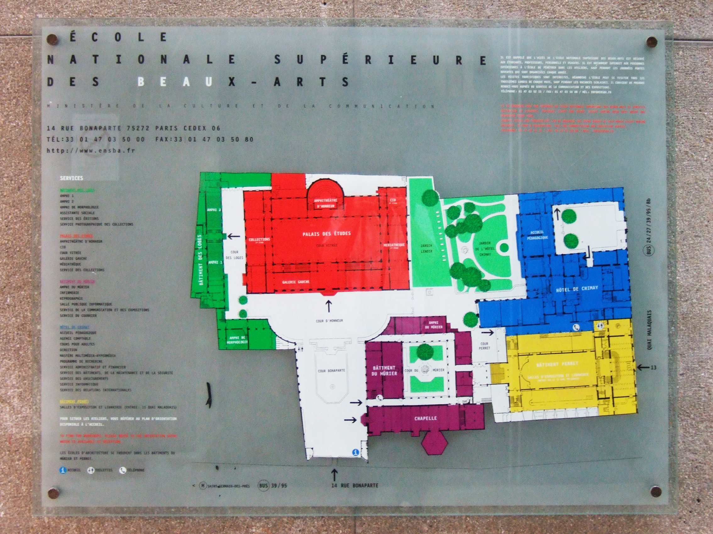 Plan of Ecole nationale superieure des Beaux-Arts, Paris, Ensba